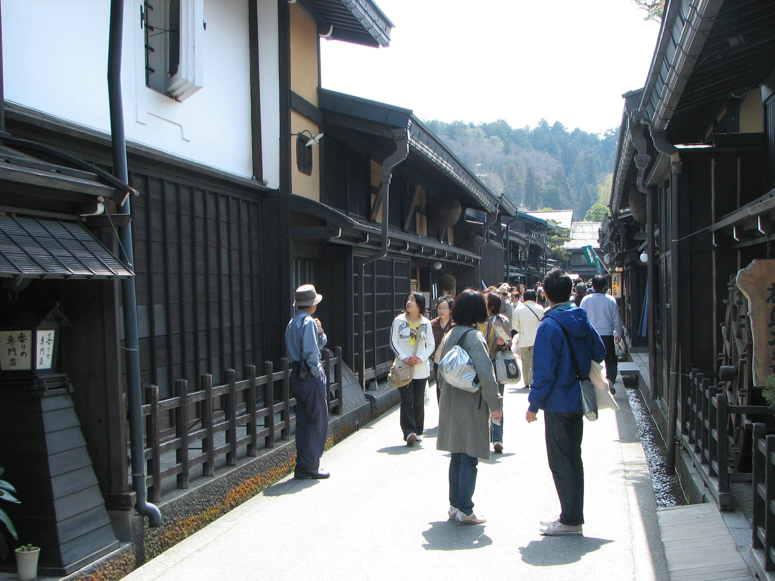 Steet of Sanmachi, Takayama, Gifu Prefecture, Japan